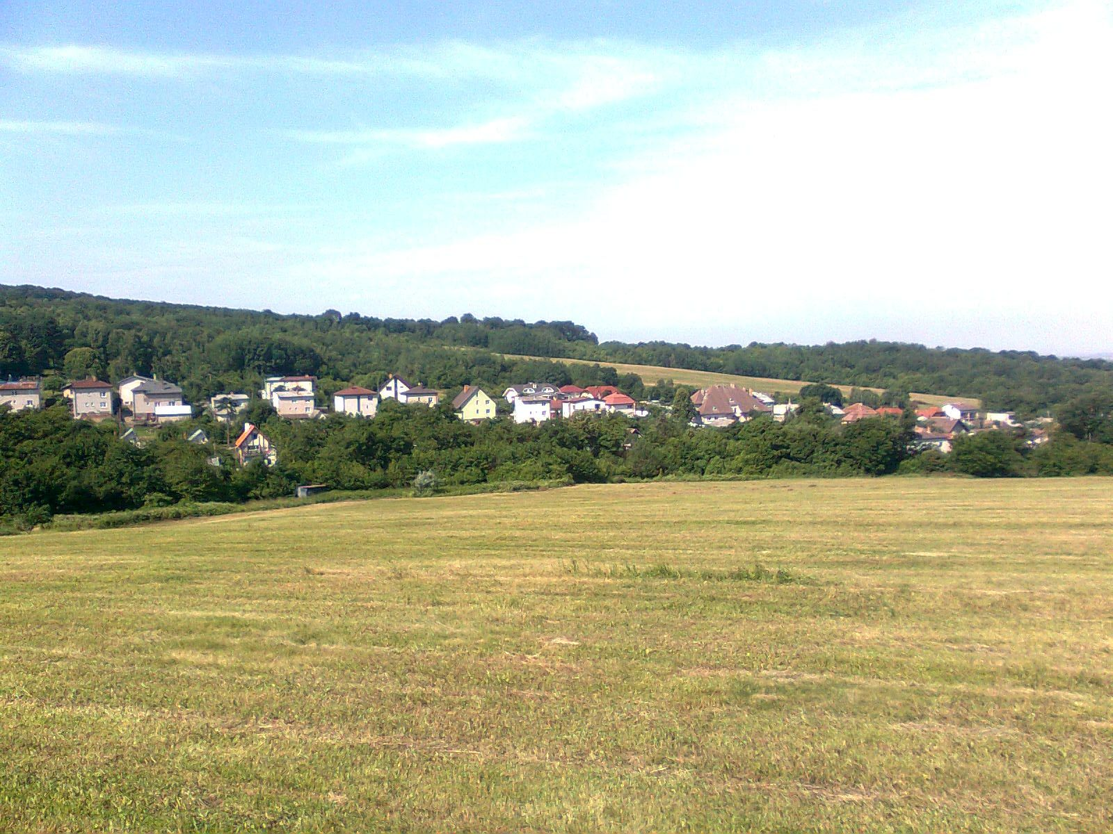 Slovakia, vilage Skaros, view from nord